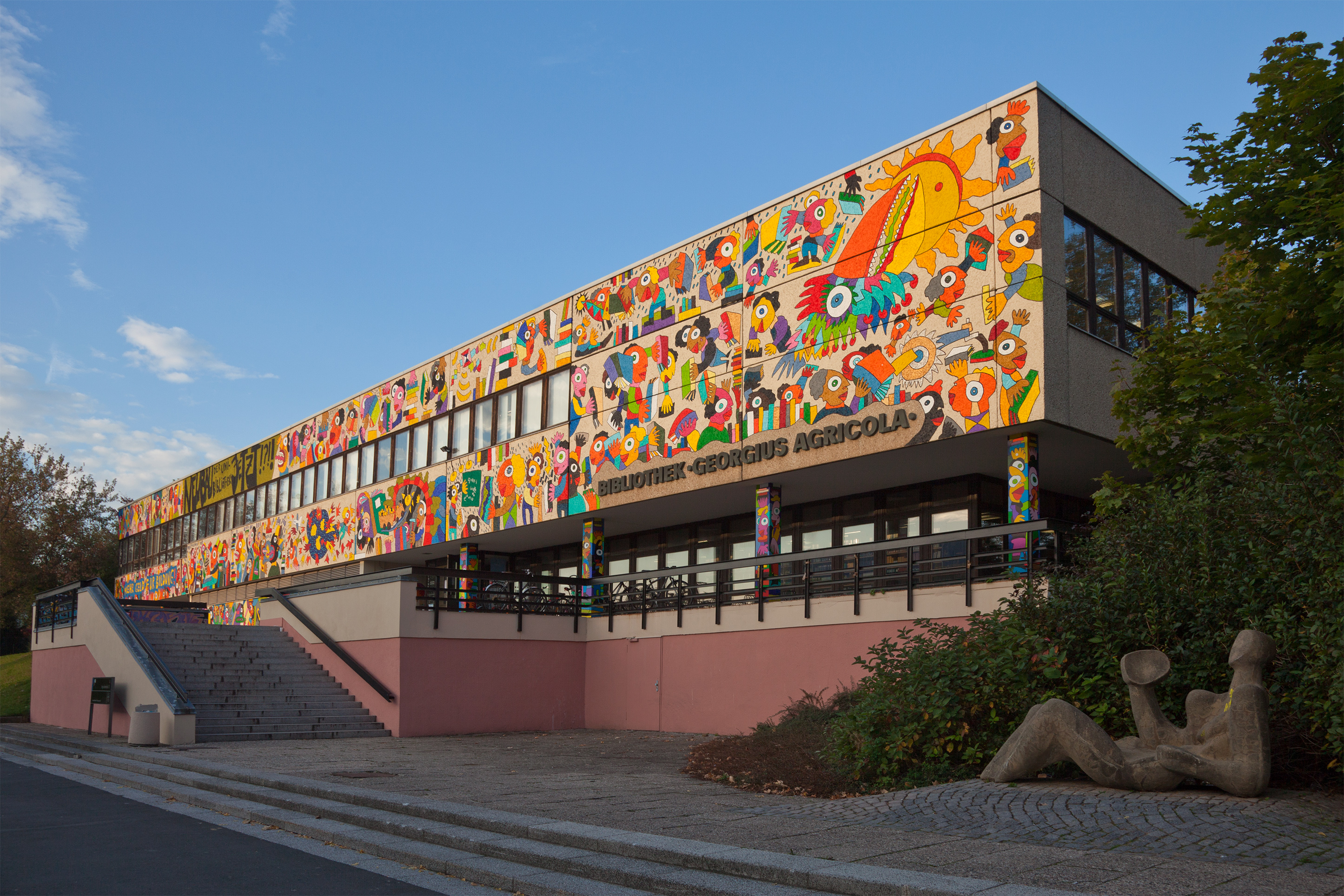 Freiberg, University Library „Georgius Agricola“, painted by Michael Fischer-Art in 2012